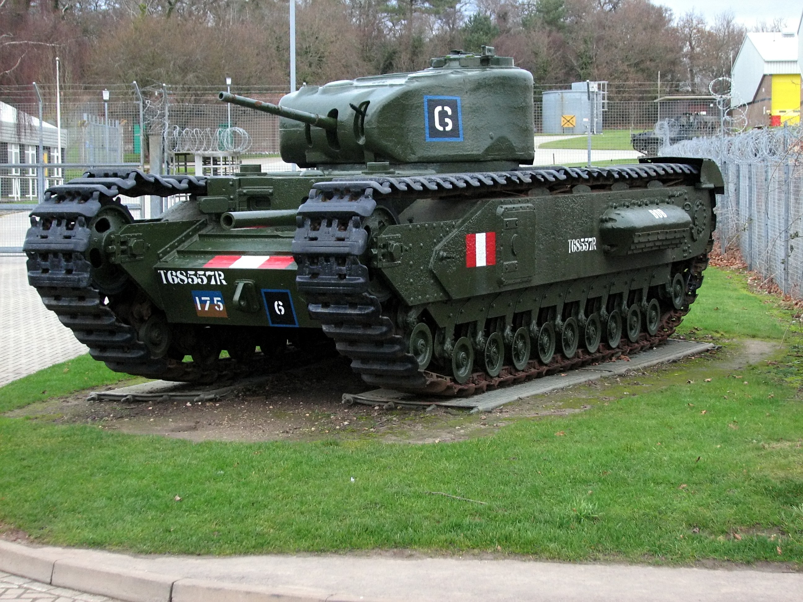 Churchill Mk II Bovington Tank Museum its hull machine gun has been replaced by a gun with a larger barrel to make it resemble a MkI